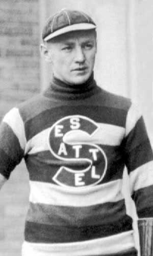 Hockey player Cully Wilson with the Seattle Metropolitans around 1917.